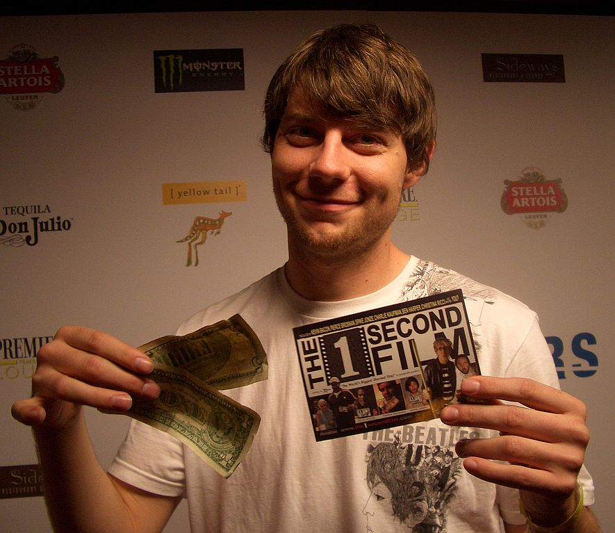 Patrick Fugit holding a producer credit for The 1 Second Film